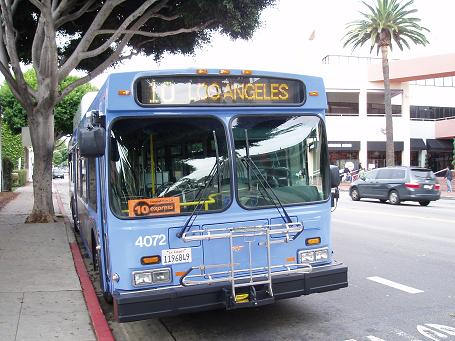 Big Blue Bus in Los Angeles, California